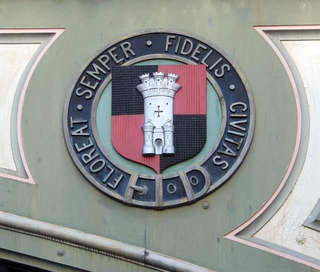 Castle shield on Foregate railway bridge, Worcester The coat of arms shows a castle imposed on quarters of red and black. "Floreat Semper Fidelis Civitas" Let the faithful city ever flourish. Worcester became known as "the faithful city" as it remained loyal to King Charles and Prince Charles during the Civil War.